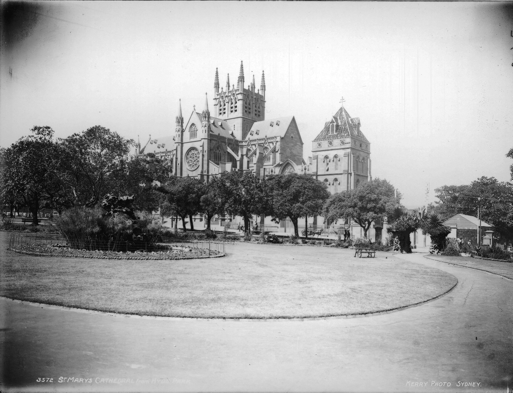 'Sydney City' Pictures from The Powerhouse Museum This files was posted to Flickr by The Powerhouse Museum (See their website for further information). Many thanks to the Powerhouse Museum for helping release this wonderful material. This tag does not indicate the copyright status of the attached work. A normal copyright tag is still required. See Commons:Licensing for more information.